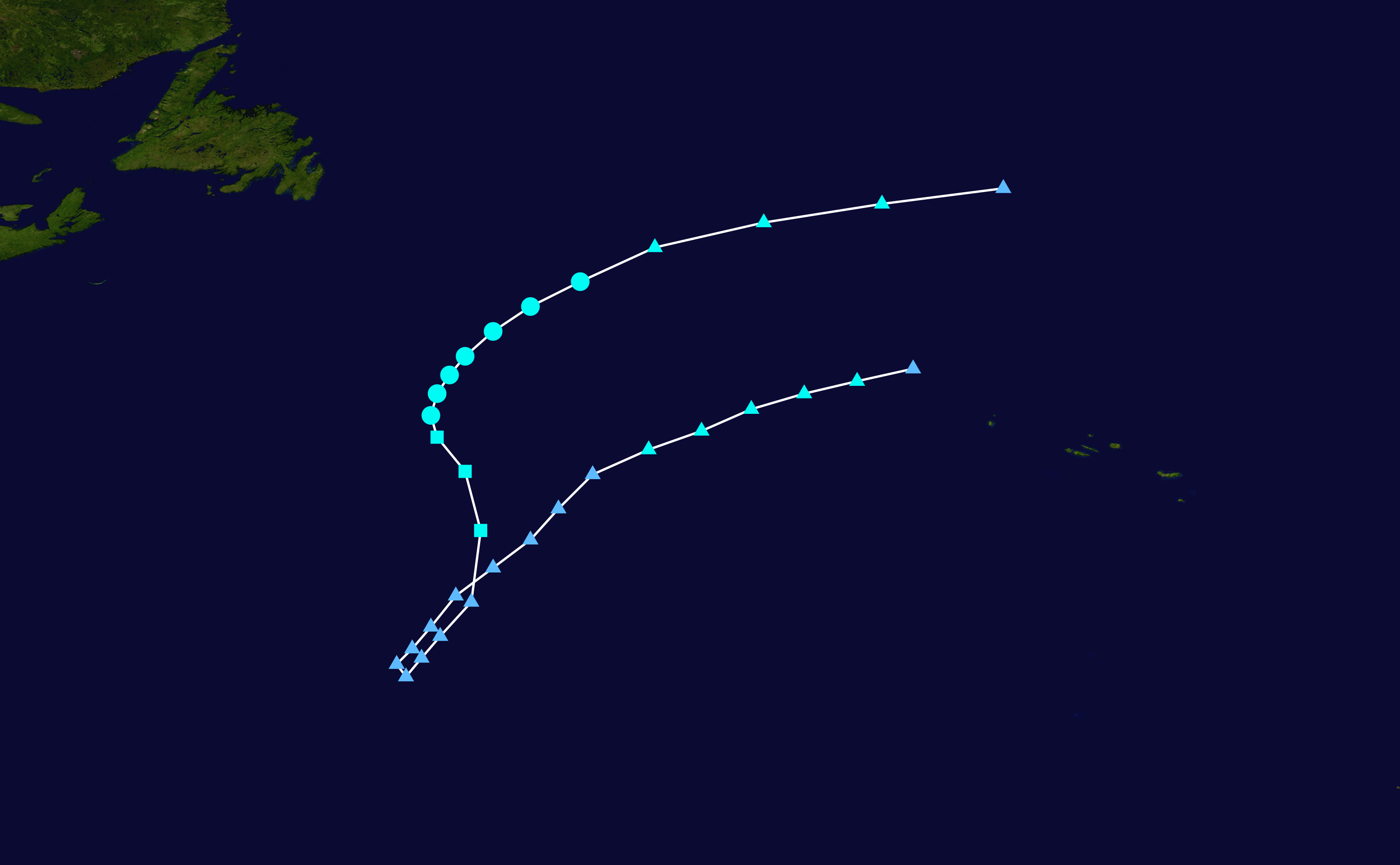 Track map of Tropical Storm Debby (2018) of the 2018 Atlantic hurricane season. The points show the location of the storm at 6-hour intervals. The colour represents the storm's maximum sustained wind speeds as classified in the Saffir–Simpson scale (see below), and the shape of the data points represent the nature of the storm, according to the legend below. Saffir–Simpson scale Tropical depression≤38 mph≤62 km/h Category 3111–129 mph178–208 km/h Tropical storm39–73 mph63–118 km/h Category 4130–156 mph209–251 km/h Category 174–95 mph119–153 km/h Category 5≥157 mph≥252 km/h Category 296–110 mph154–177 km/h Unknown Storm type Tropical cyclone Subtropical cyclone Extratropical cyclone / Remnant low / Tropical disturbance / Monsoon depression